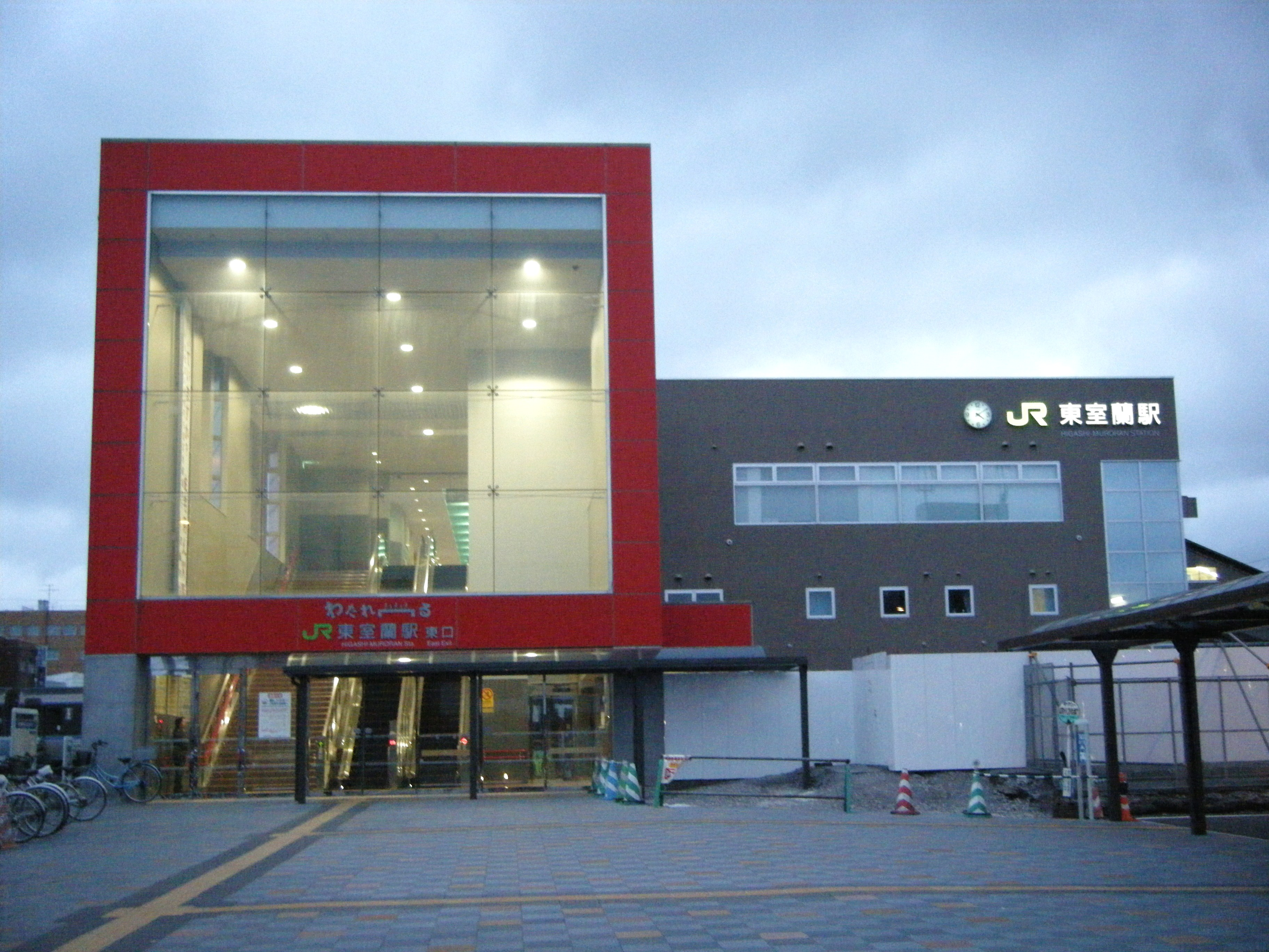 The east entrance at Higashi-Muroran Station in Hokkaido, Japan